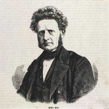 Edvard Philip Hother Hage (1816-1873), Danish jurist and politician, MP